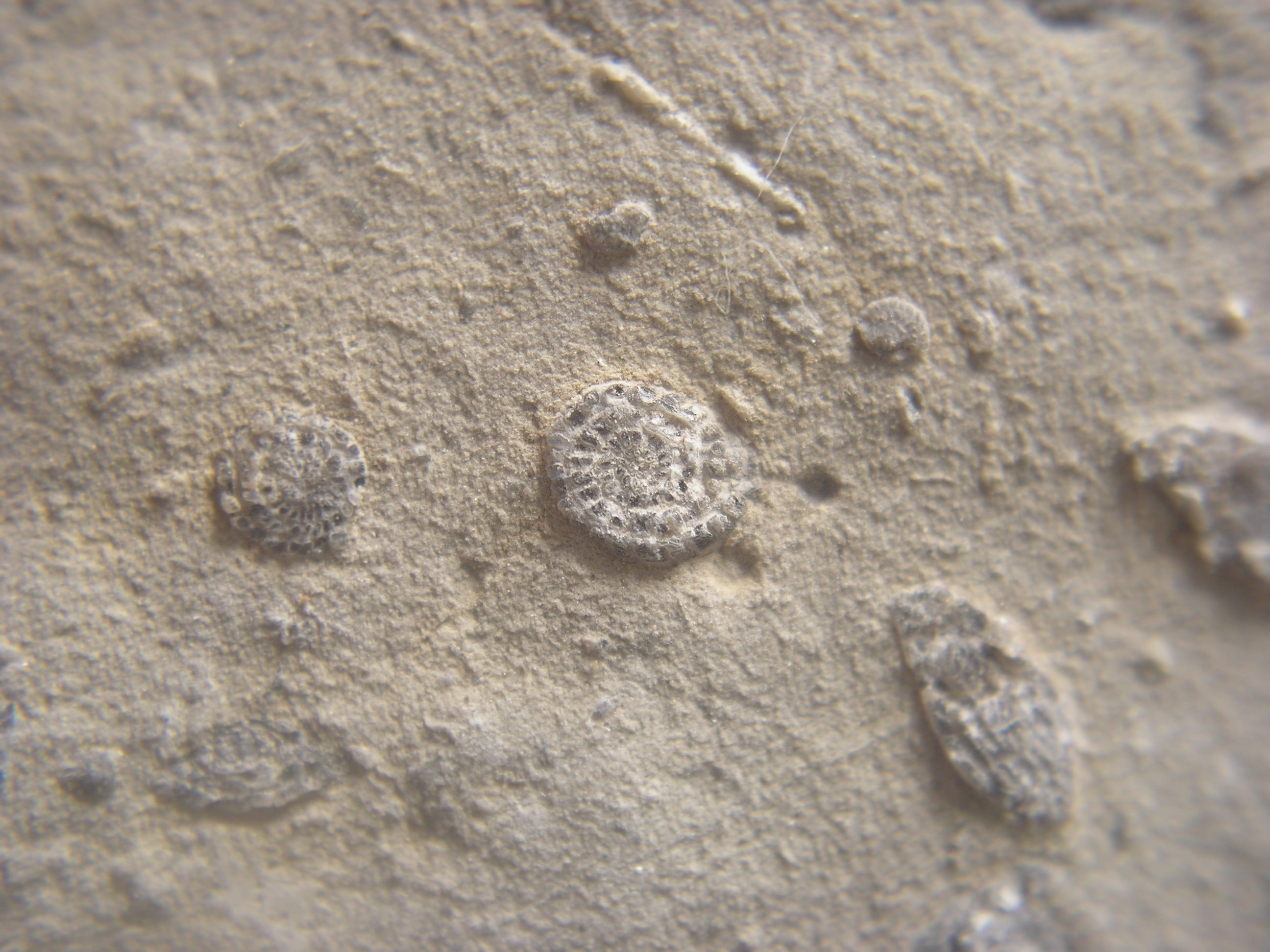 Photo of an unidentified 10 million year old Foramaniferan at Red Rock Canyon National Conservation Area. It is about 1 millimeter in length.